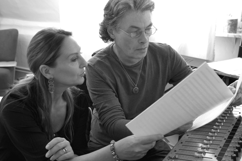 The picture shows Angelia Fleer and Richard Schönherz. Foto: Ralf Braum